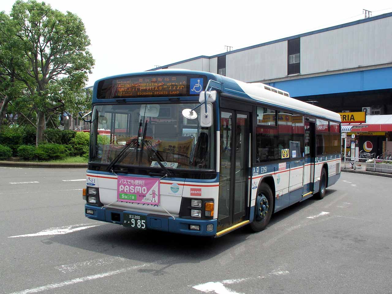 Keisei Bus Mizu-75 route started Minami-gyotoku station. Model: Isuzu Erga KL-LV280N License plate: TKA200 KA-985 Place: Minami-gyotoku station, Ichikawa city, Chiba Japan